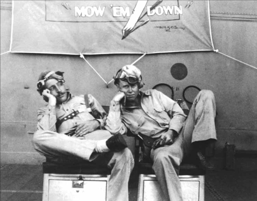 U.S. Navy pilots Lt. Dave Pollock and Lt. Swede Vejtasa of Fighting Squadron 10 (VF-10) "Grim Reapers" aboard the aircraft carrier USS Enterprise (CV-6) off Guadalcanal, in October 1942, shortly before the Battle of the Santa Cruz Islands. The two pilots have dragged two heavy chairs up to the flight deck to illustrate their boredom. Pollock would end the war with two kills. Vejtasa scored 10.25 kills and retired with the rank of captain. He passed away on 23 January 2013 at the age of 98.